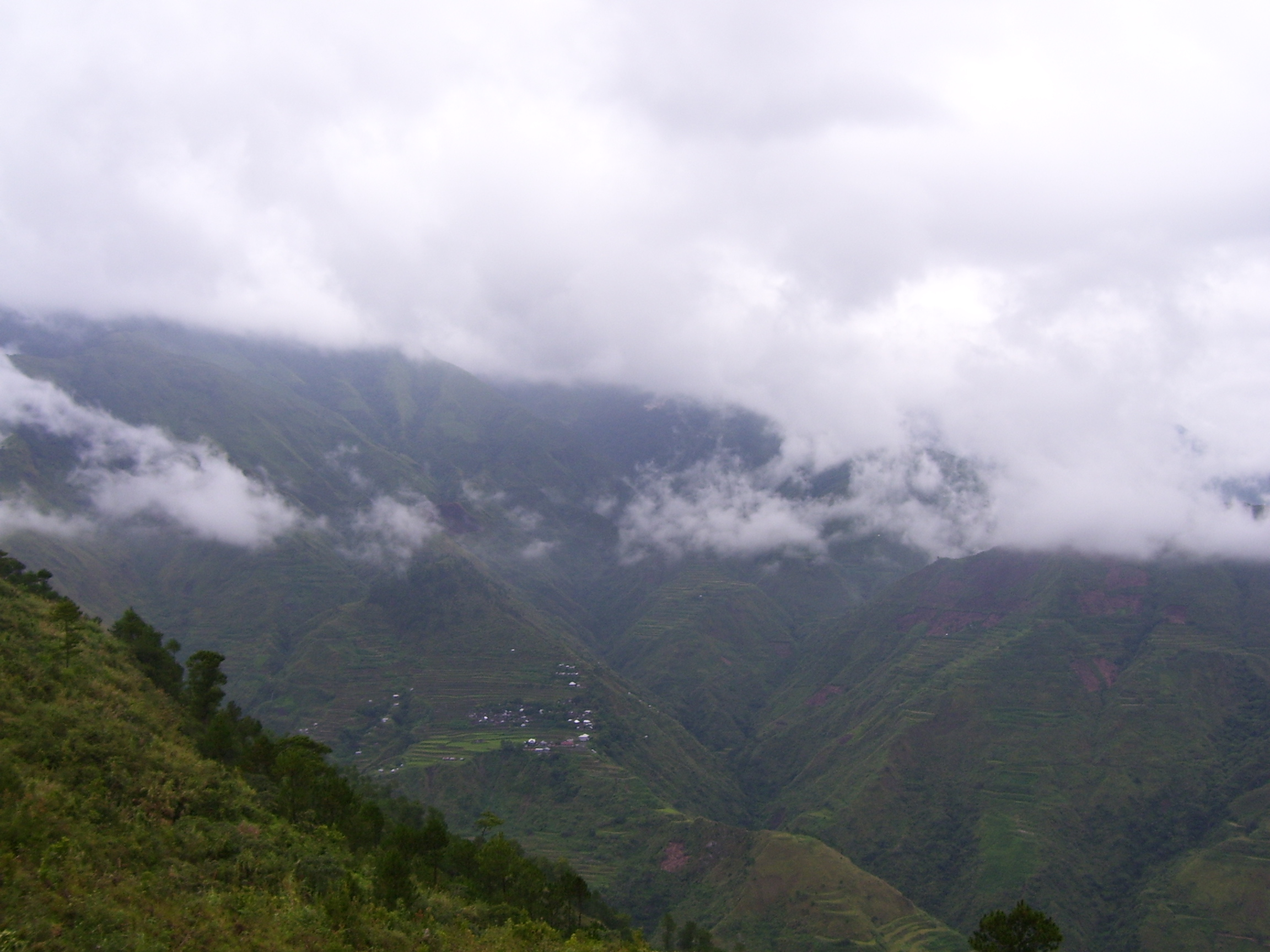 Sugo-oc Fumarole Field in Bunog River Valley above Dananao village. Sugo-oc is the white patch centre-right above Dananao, immediately under cloudline.